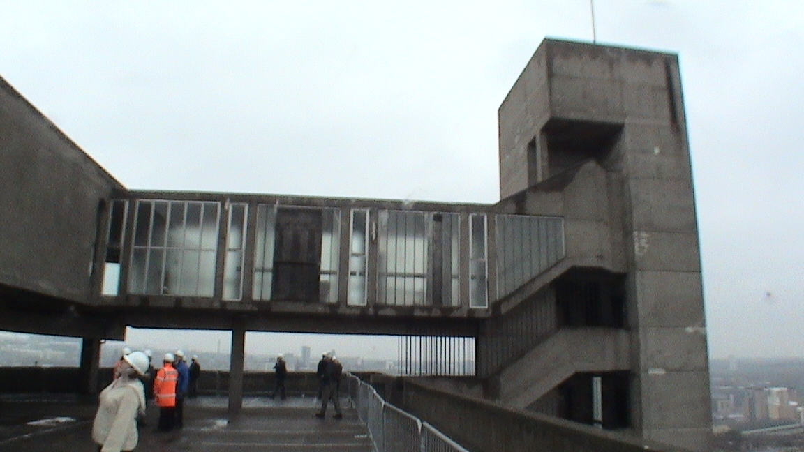 Trinity Centre carpark roof